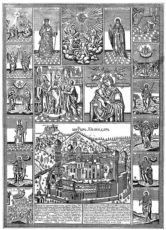 Monastery of Hilandar, copperplate by Orfelin.